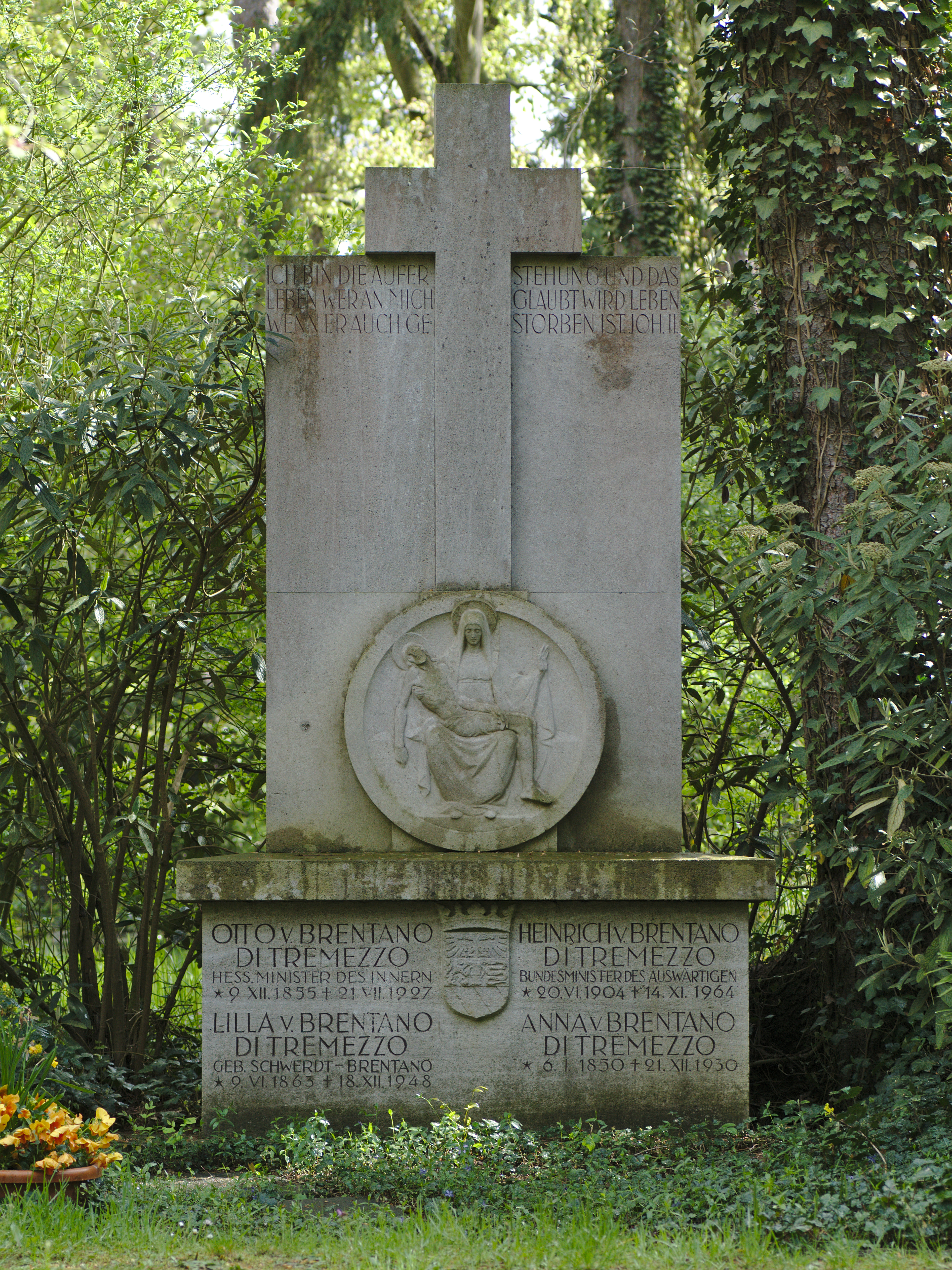 Grave of von Brentano family at Waldfriedhof Darmstadt